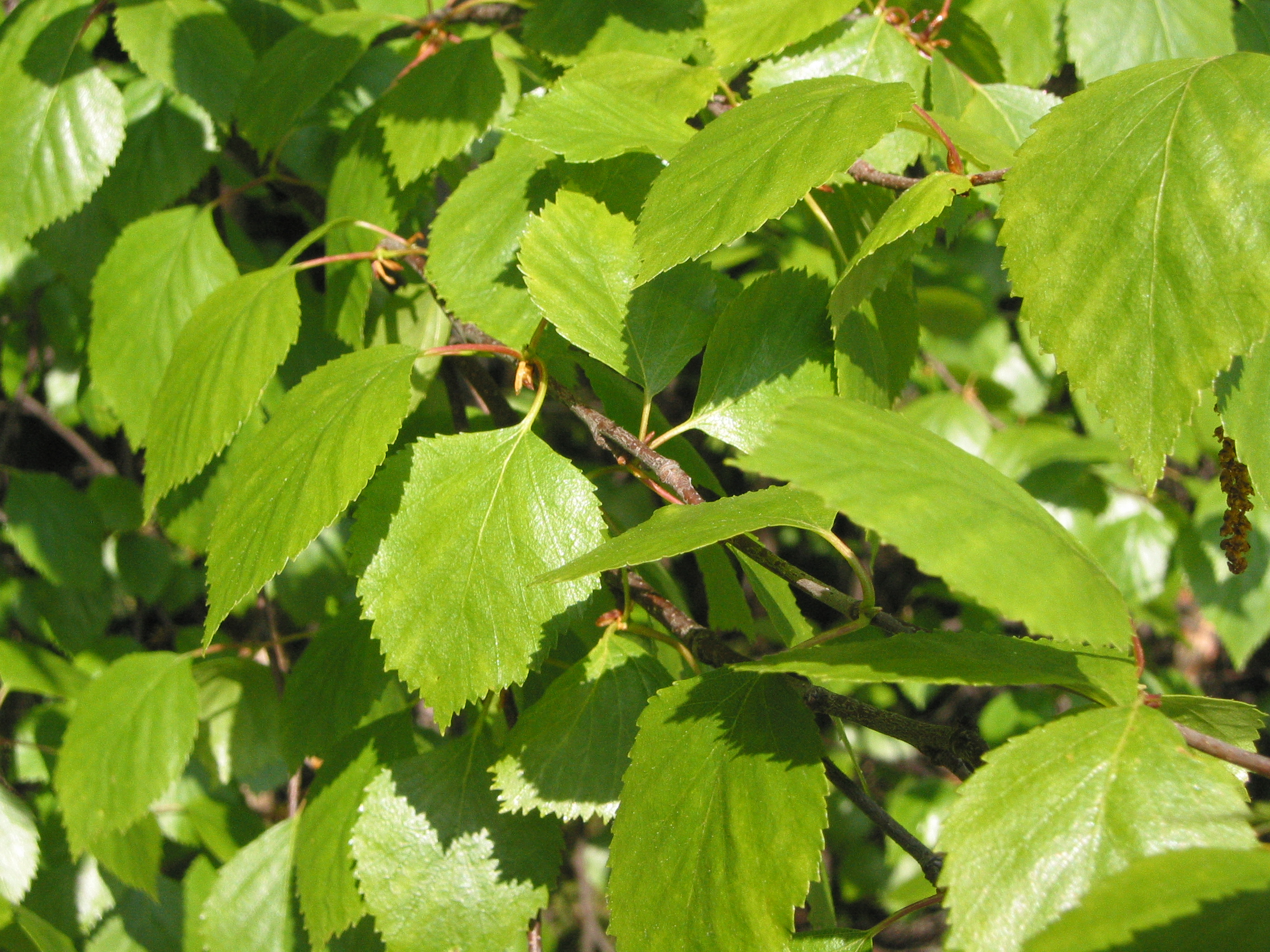 Birch (Betula pubescens) leaves in bright sunshine.